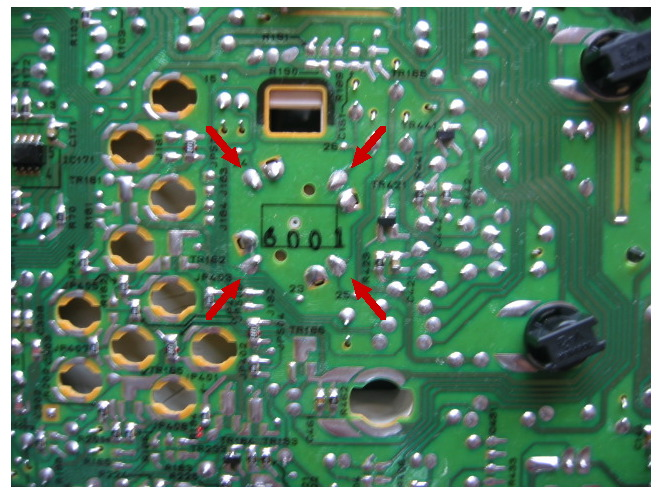 Taken by WWriter and released to public domain on January 2, 2011. Picture is detail of back side of 2001 Honda Civic instrument cluster PC board. Arrows show four mounting terminals of a typical air core gauge.